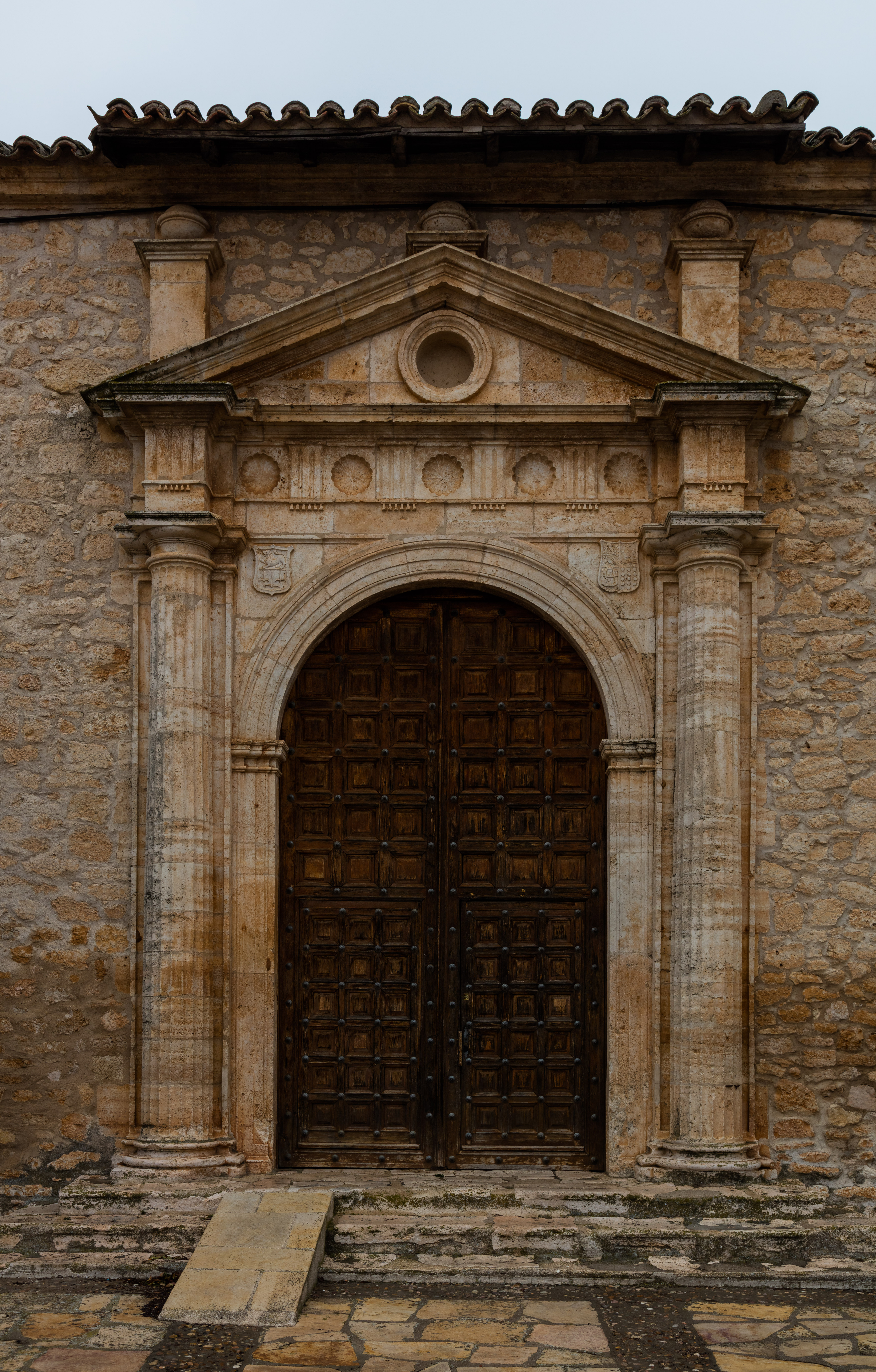 Church of Our Lady of the Assumption, Atanzón, Guadalajara, Spain